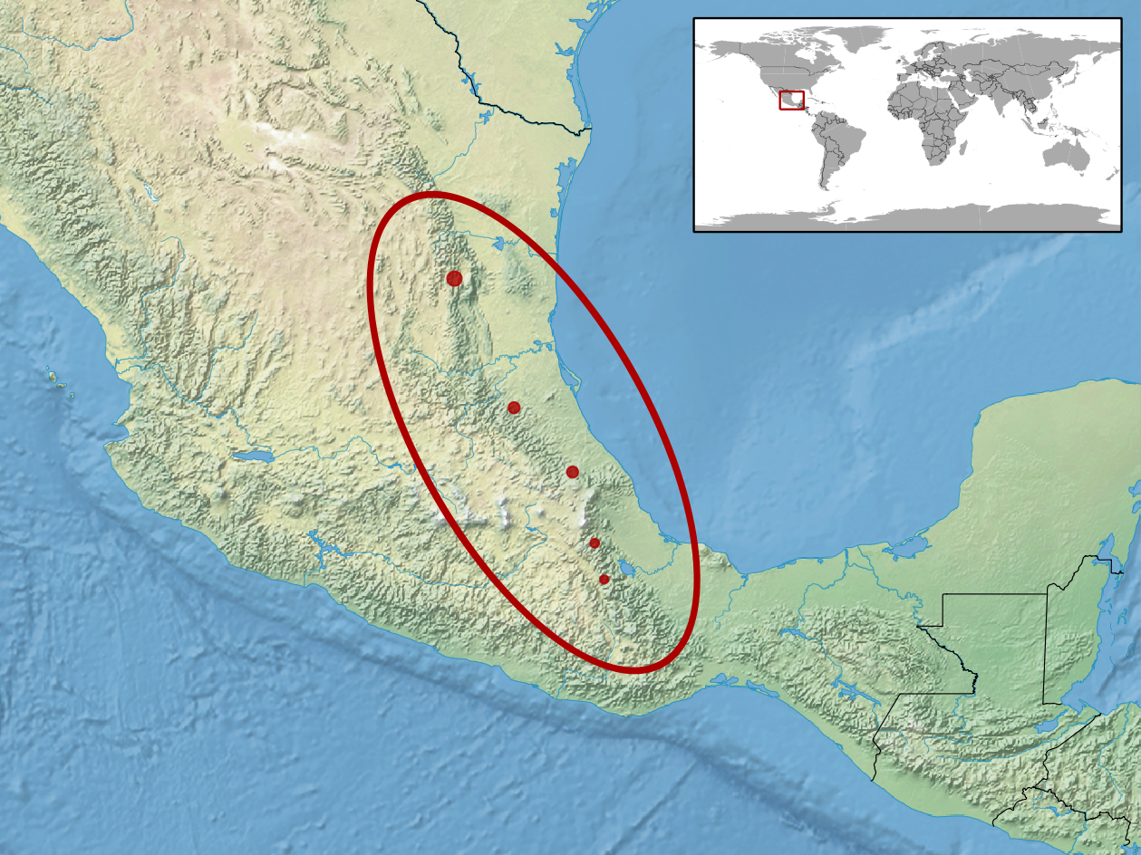 geographic distribution of Scincella silvicola